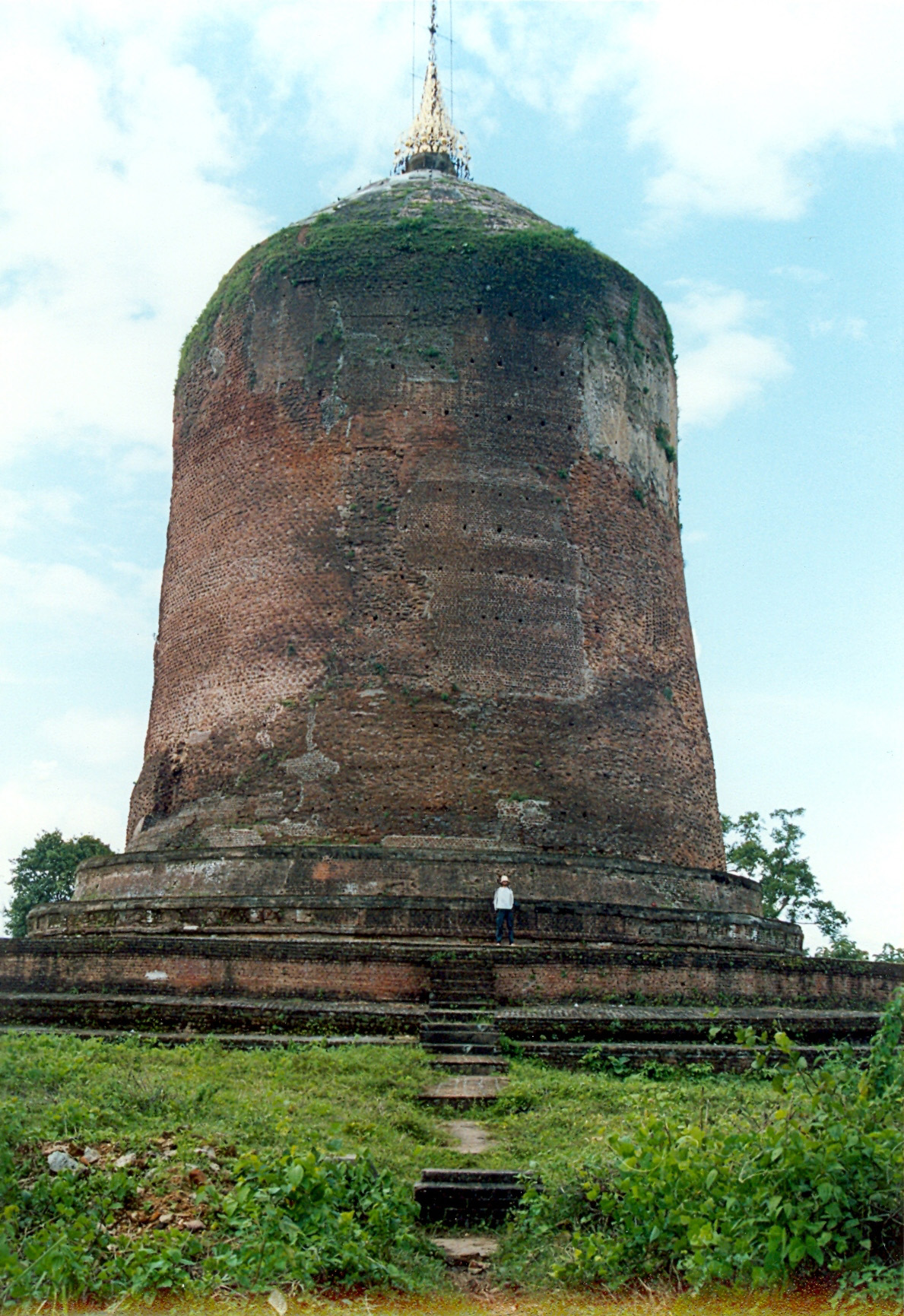 Bawbawgyi Paya near Pyay, Burma.